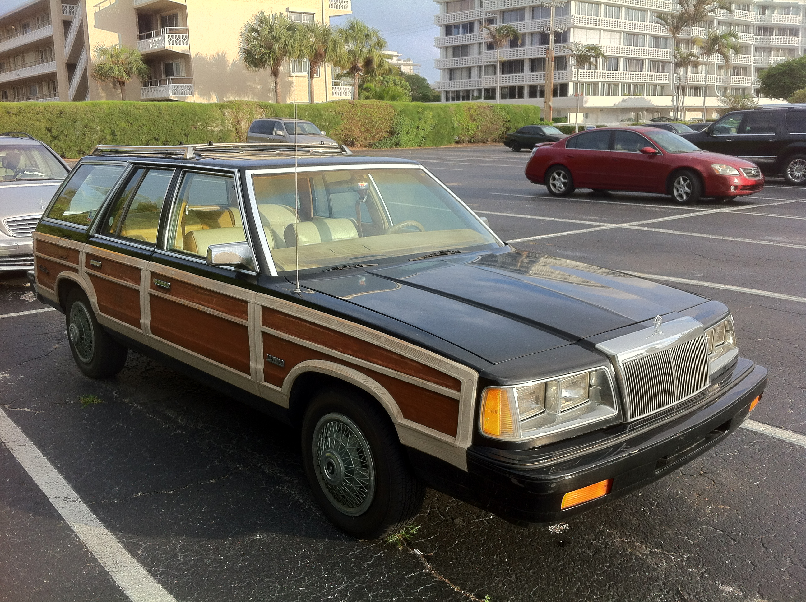 Chrysler Town & Country - a compact-sized station wagon (the 1986-1988 model year version of K-body automobile platform). Picture taken in Palm Beach, Florida.